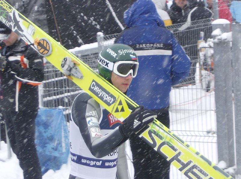 ski jumper Pavel Karelin from Russia during the World Cup in Zakopane on 27-1-2008